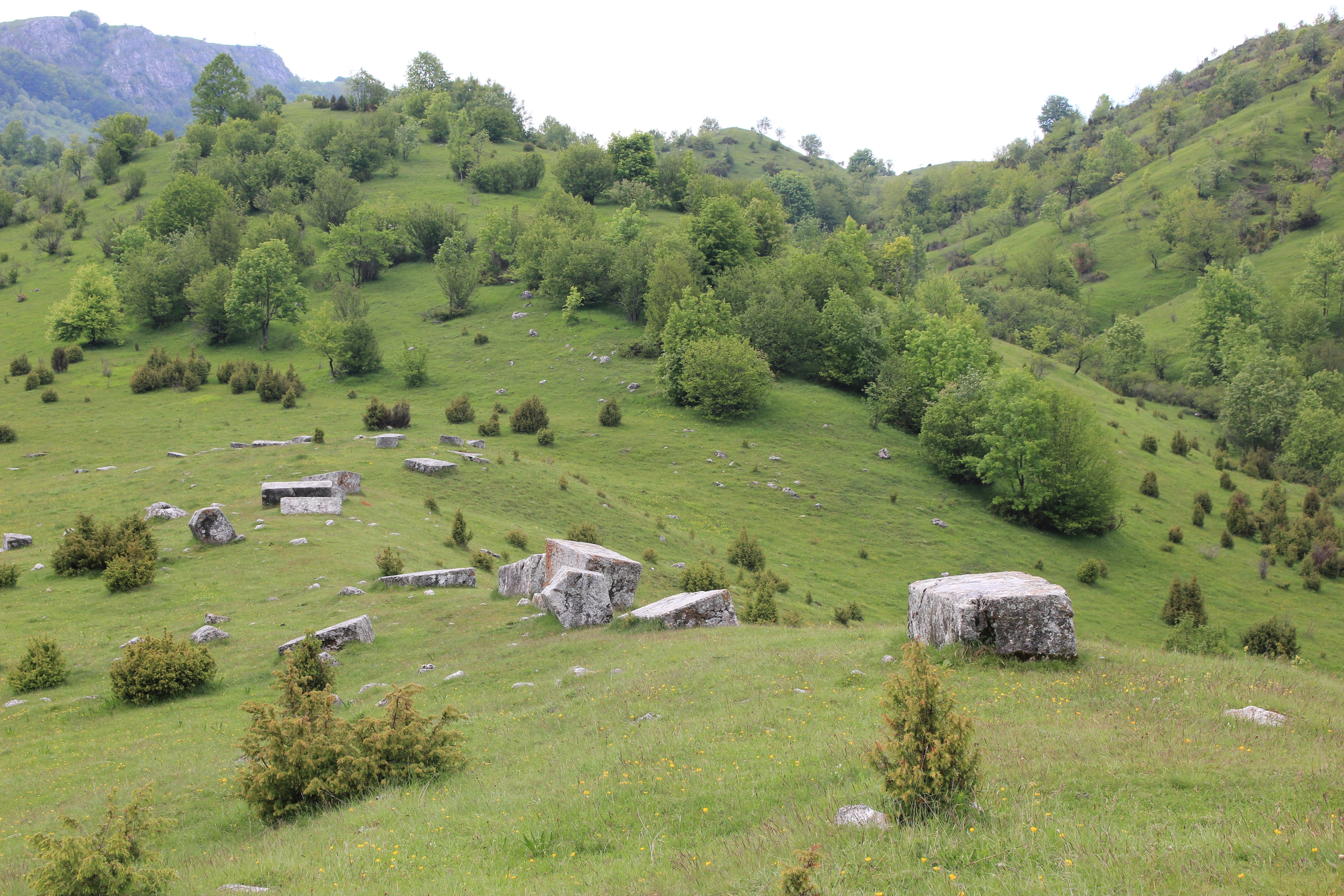 Necropolis near Umoljani, Bosnia.